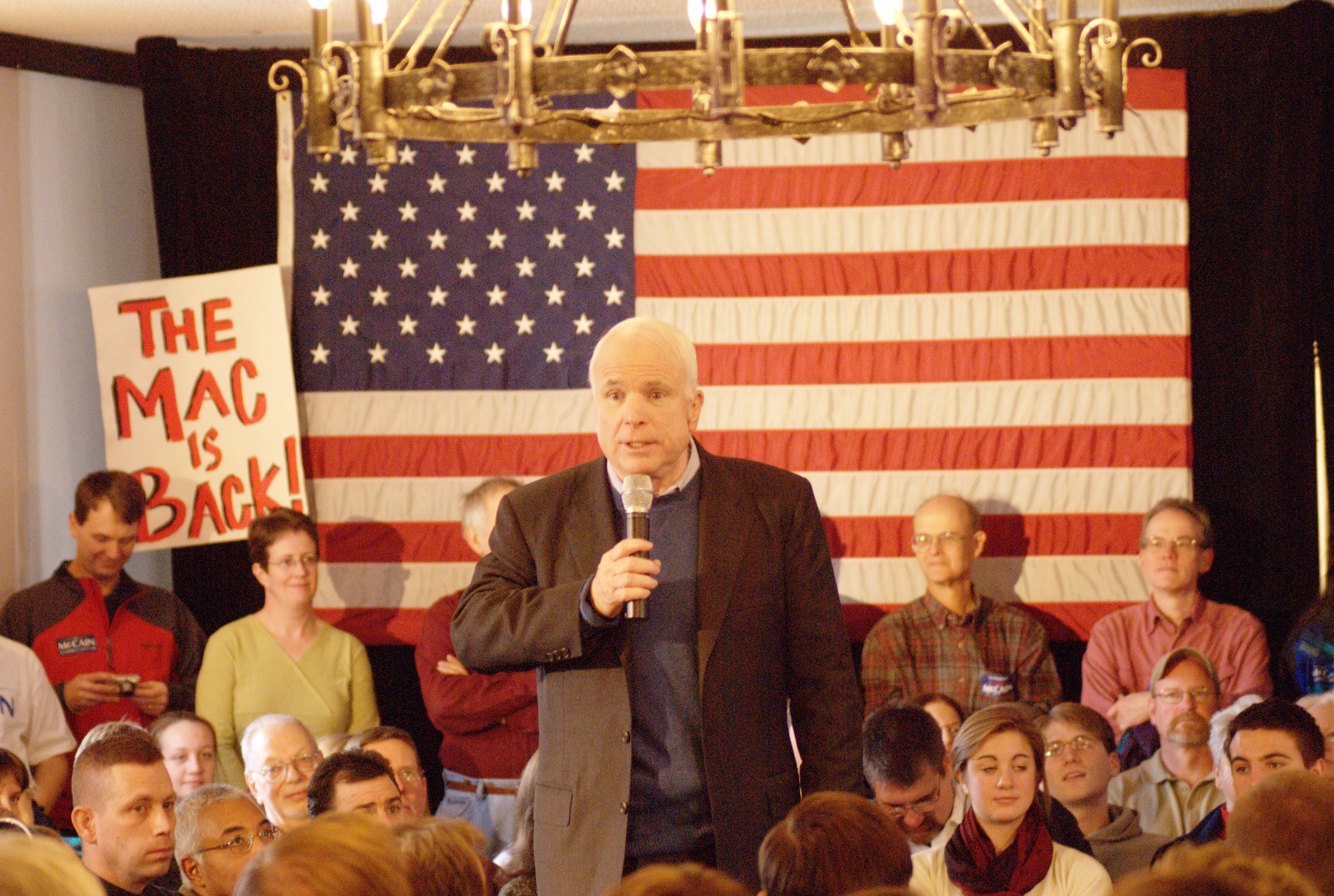 U.S. presidential candidate John McCain campaigning in New Hampshire.